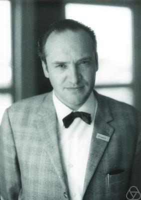 Konrad Jörgens in Memmingen 1971 (from the Oberwolfach collection)